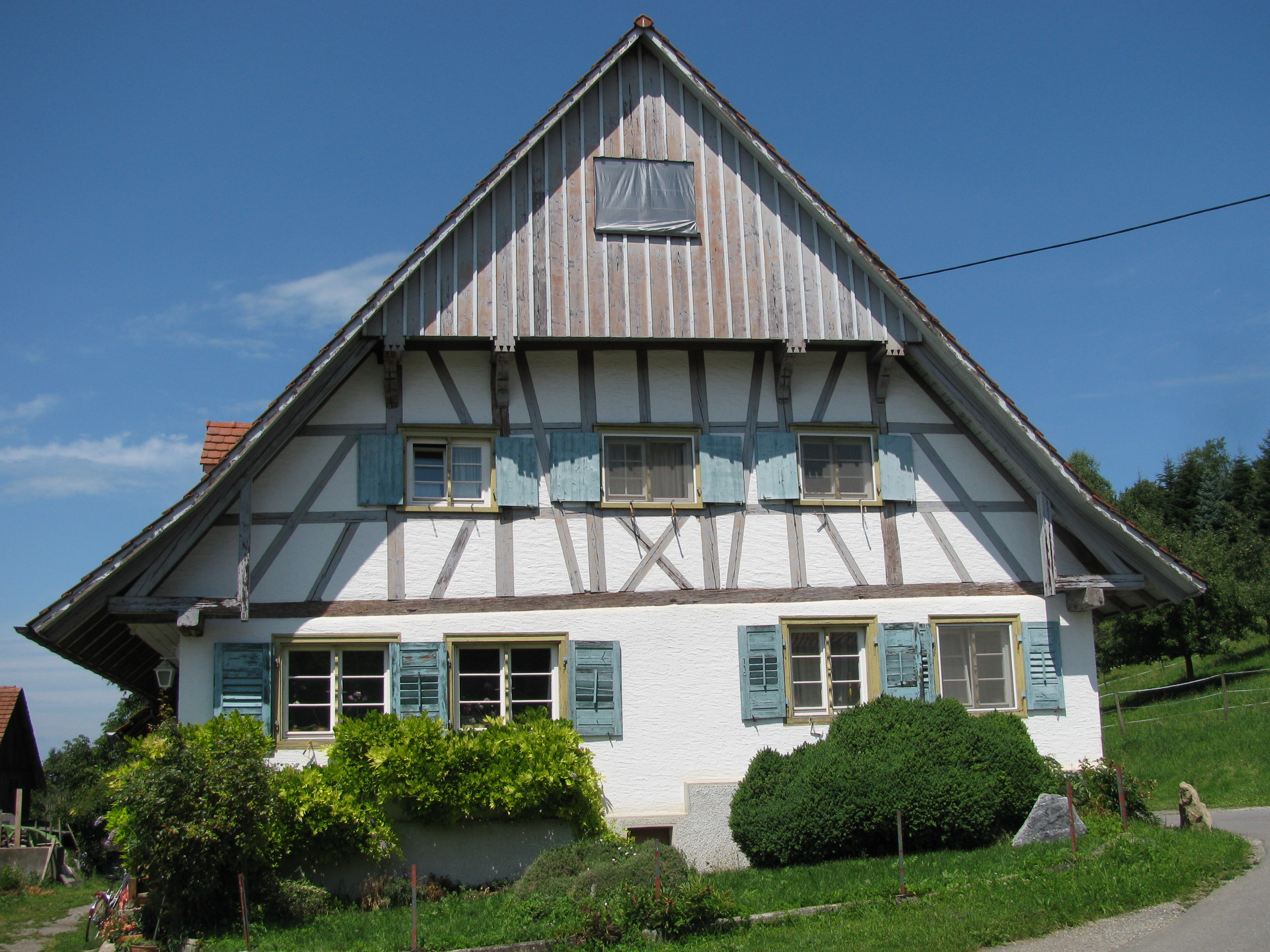 Germany - Baden-Württemberg - Bodenseekreis - Kressbronn am Bodensee - Kalkähren: timber framing